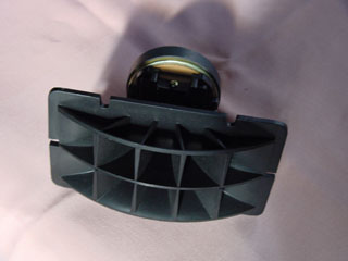 Multicellular tweeter